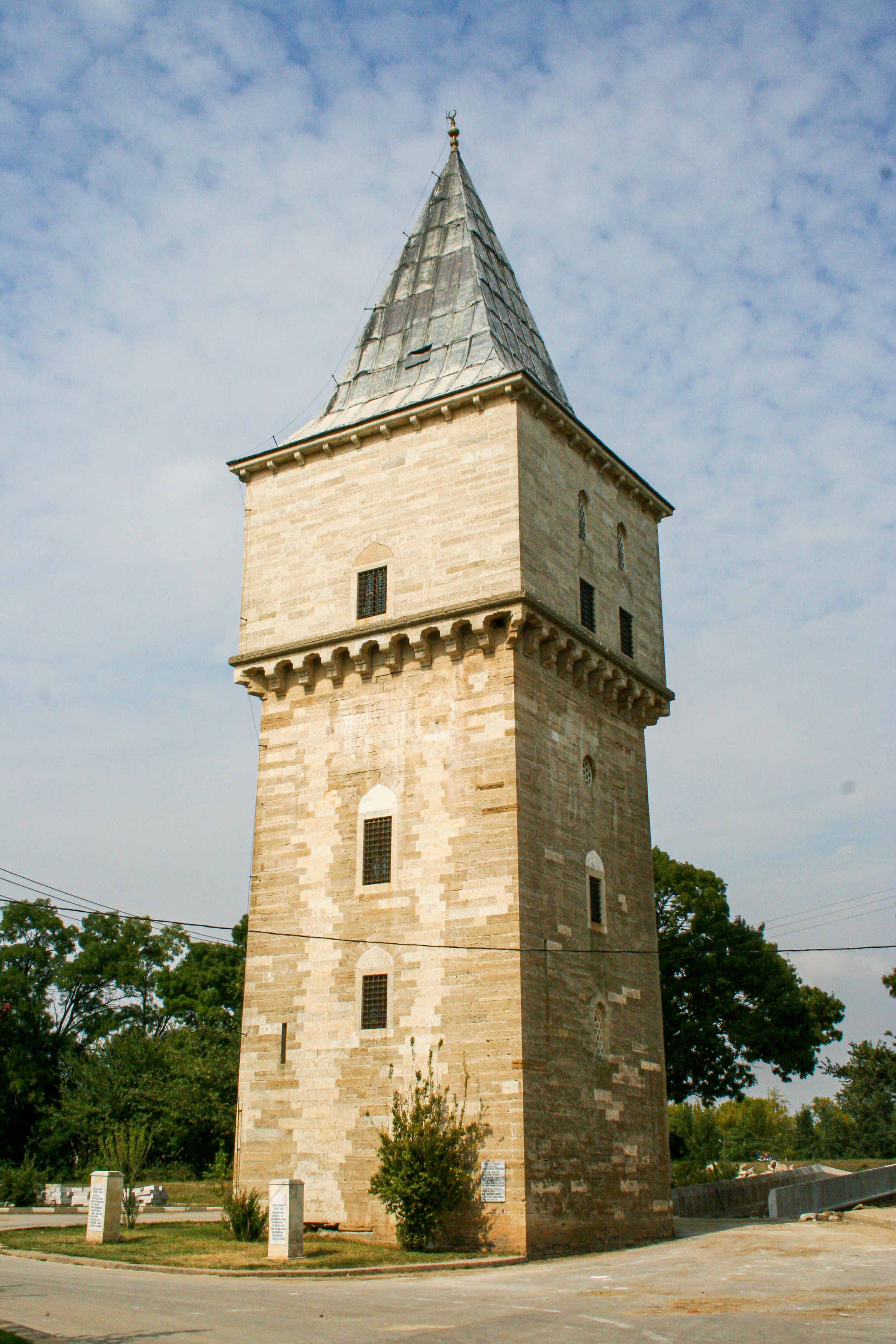 Adalet Tower, Edirne, Turkey